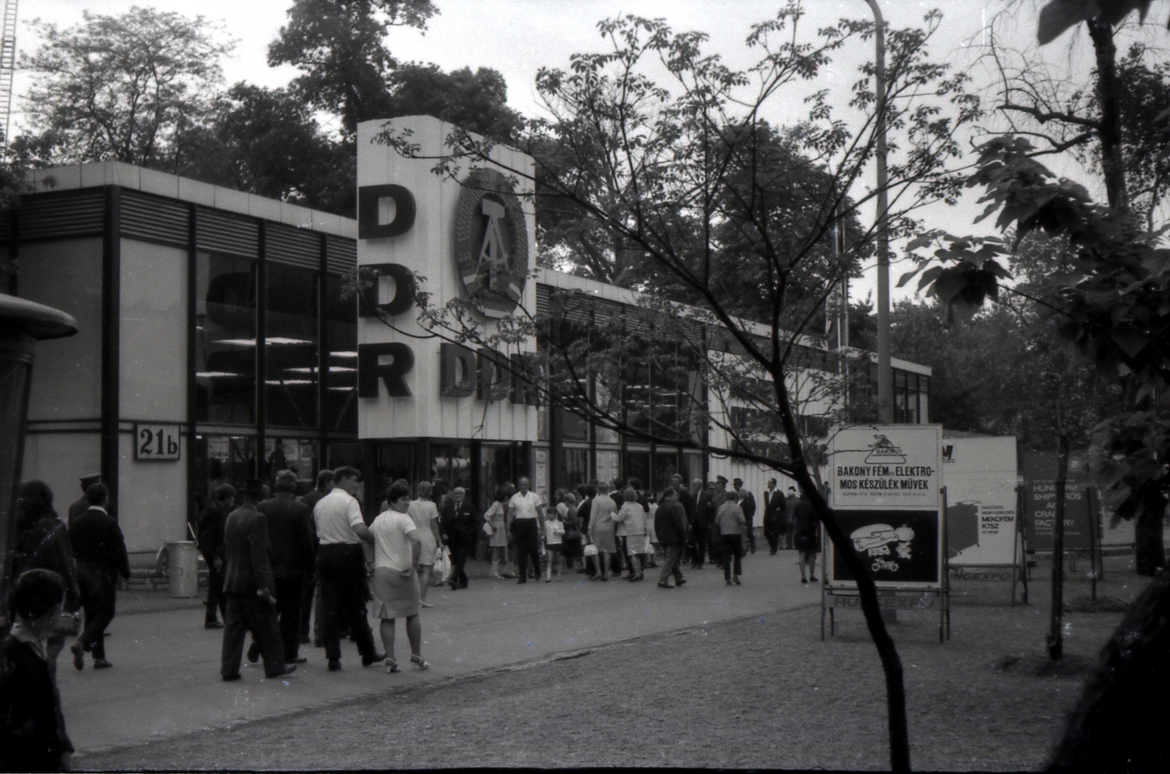 DDR national pavillon at Budapest International Fair, 1969